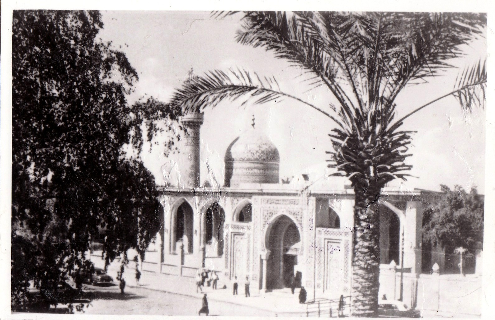 An outer view of Abu Hanifa mosque in Adhamiyah, Baghdad in 1950s